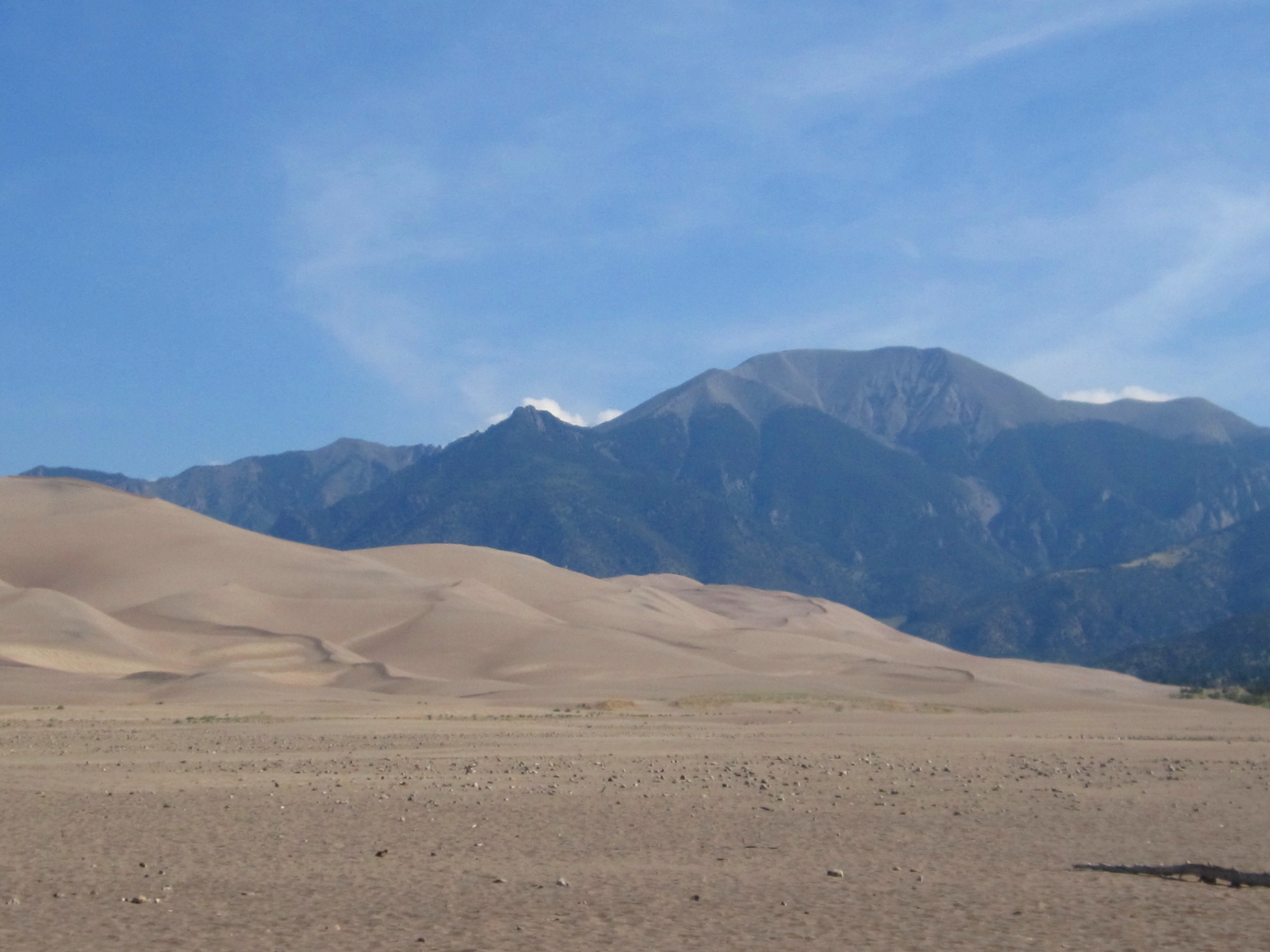 Great Sand Dunes and Mount Herard